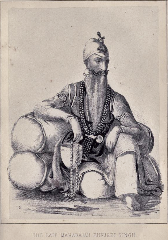 The Late Maharajah Ranjeet Singh, lithograph printed in Paris by Lemercier of watercolor and pencil original, 14.7cm x 10.6 cm. Maharajah Ranjit Singh sat for a Delhi artist, Jivan Ram, who accompanied Governor-General Bentinck on his visit to the Maharaja at Ropar in 1832. This portrait is one of two completed by Jivan Ram during that meeting.